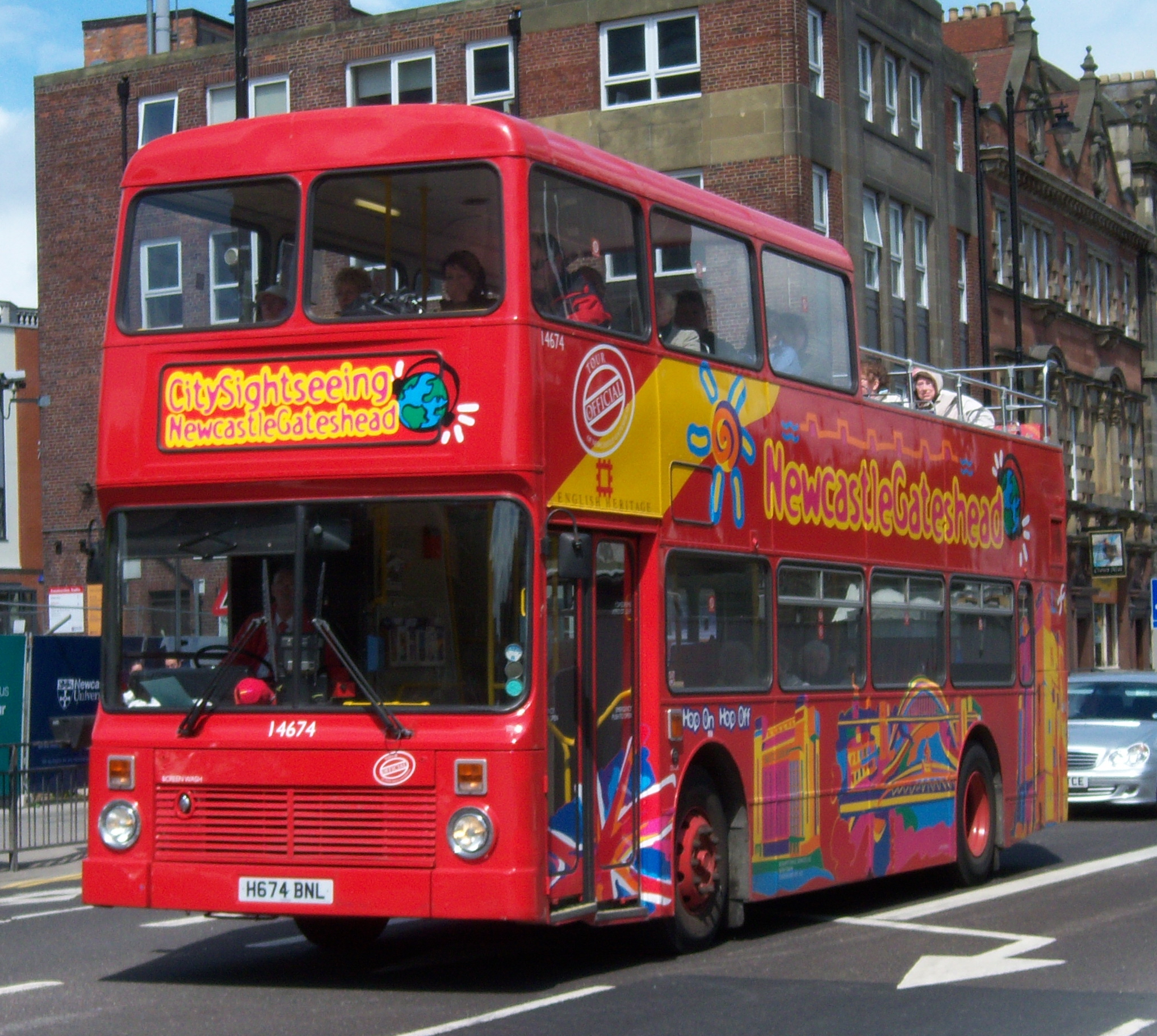 Stagecoach bus in Washington, Tyne and Wear in the City Sightseeing tour bus company livery